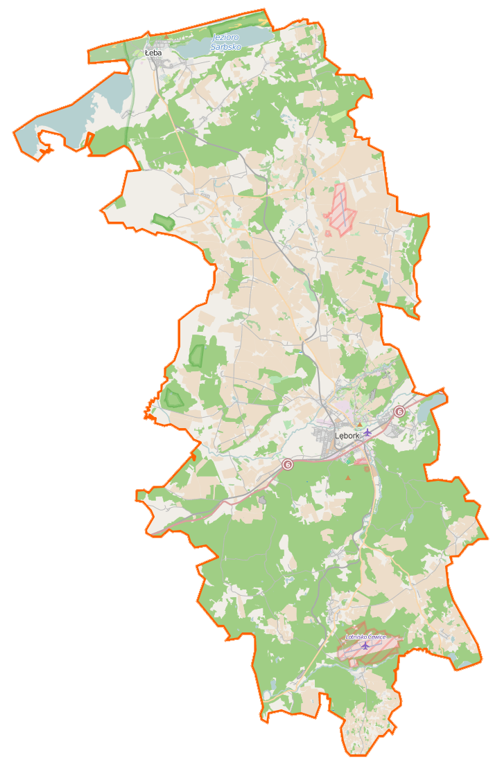 Map of Powiat lęborski, Poland This map of Powiat lęborski was created from OpenStreetMap project data, collected by the community. This map may be incomplete, and may contain errors. Don't rely solely on it for navigation.